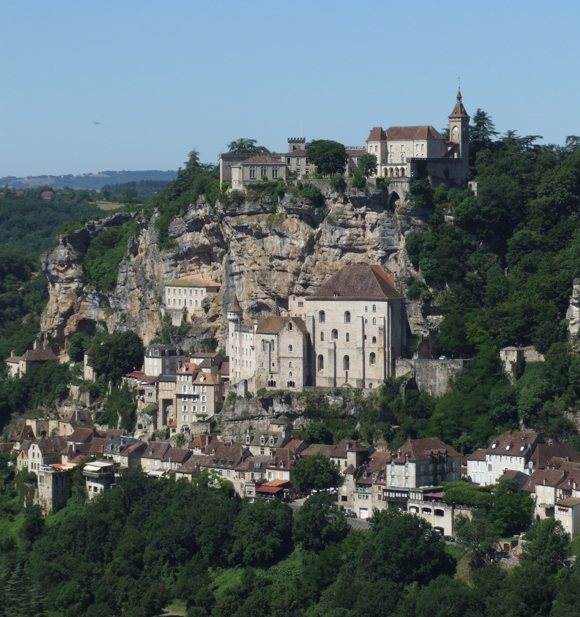 Rocamadour, Lot, FRANCE